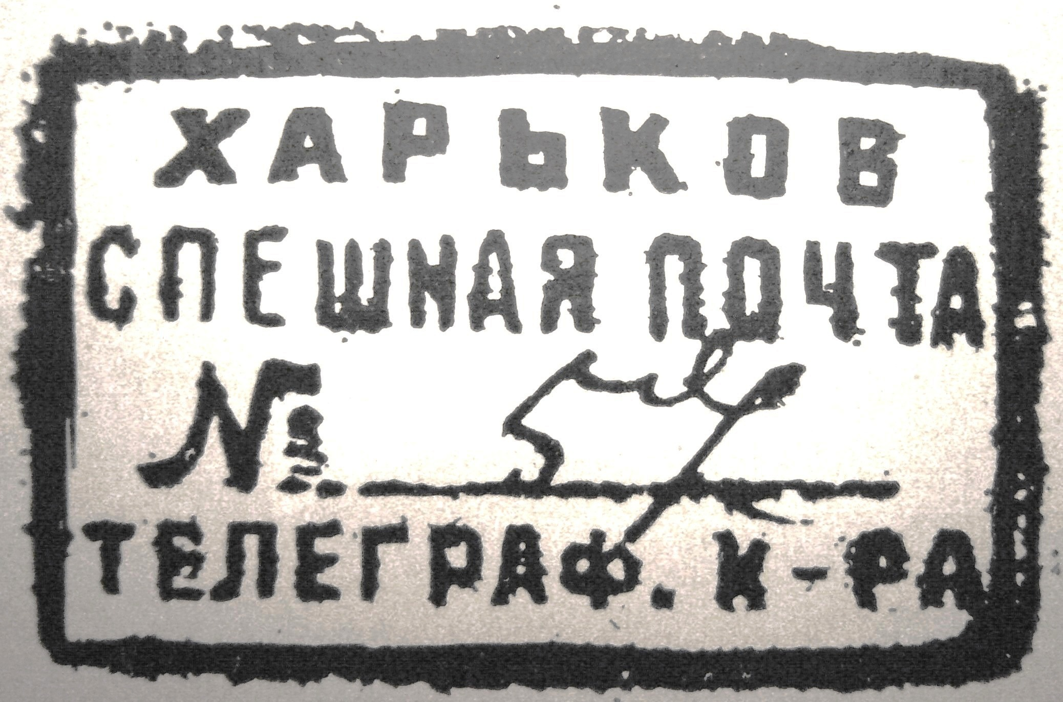 USSR express mail postmark, Kharkov, Ukraine, 1930-ies.